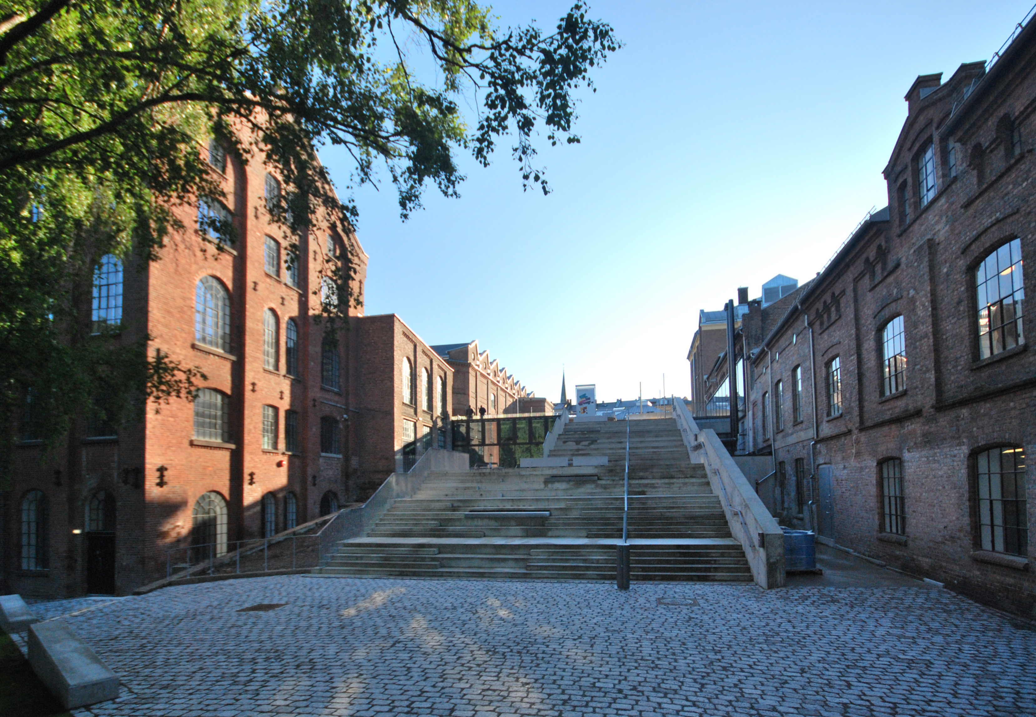 Kunsthøgskolen i Oslo (Oslo National Academy of the Arts) at Grünerløkka. Entrance from Akerselva (Aker river), stairs opened 30 August 2010